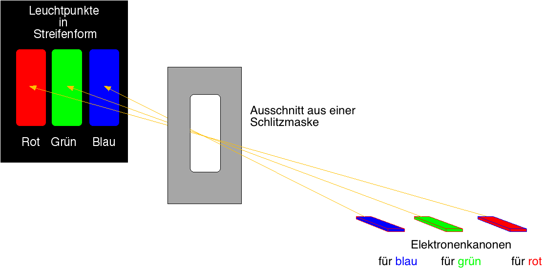 The way of the Electron beams in a Coulour picture tube throth one slot in a slot mask.